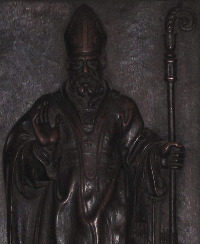 Glycerius (bishop of Milan) - wooden statue in the Choir (1567-1614) of the Cathedral of Milan